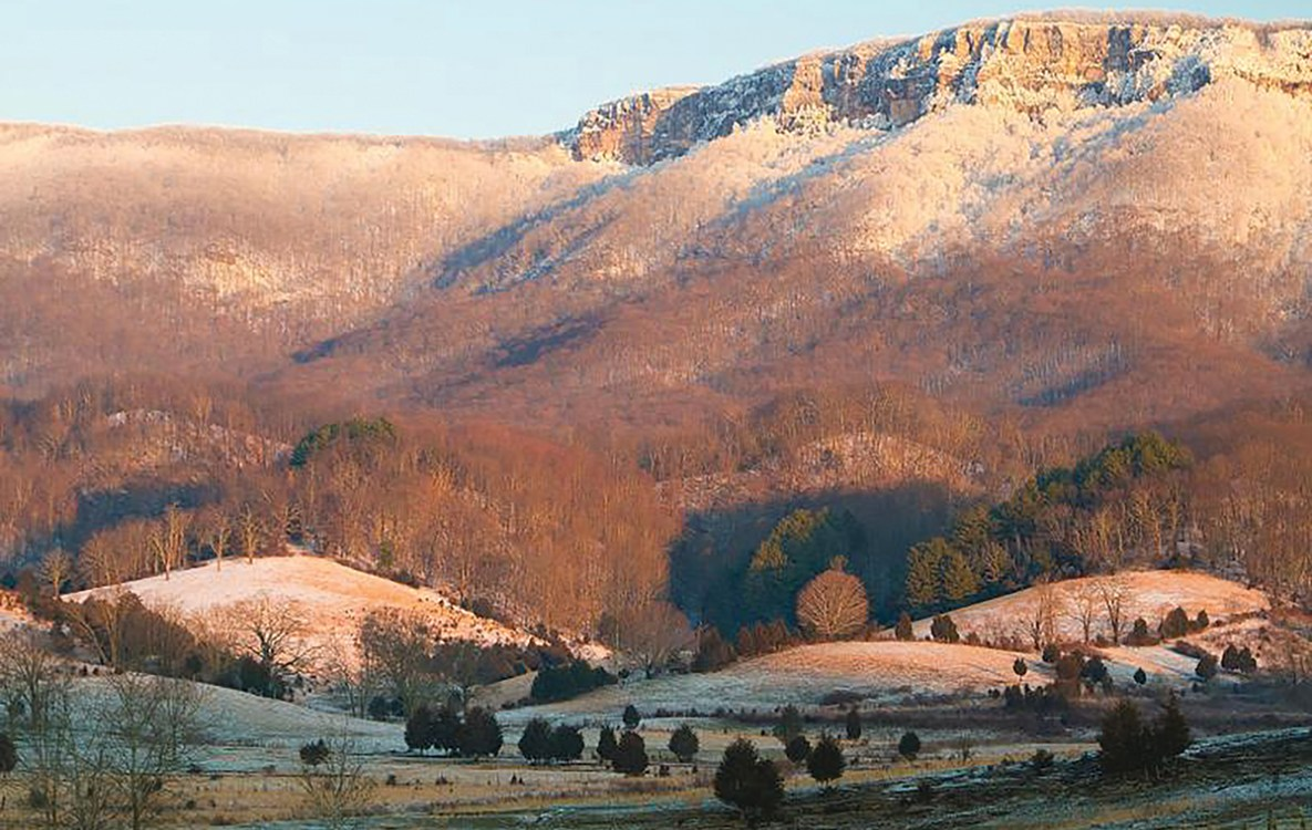 Sand Cave Cumberland Gap National Historical Park NPS photo